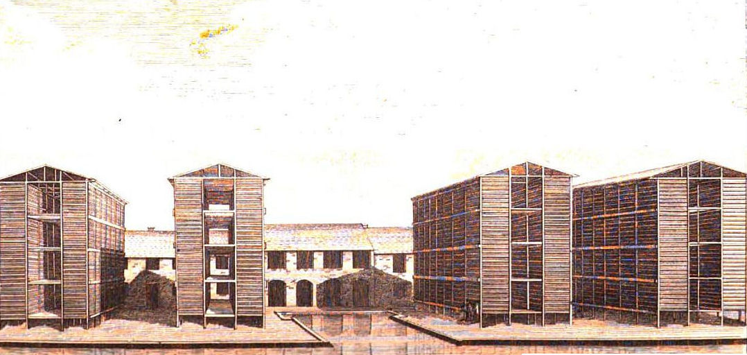 Woad Mill, North Forty Foot Bank, belonging to Major John Cartwright of Brothertoft, Lincolnshire